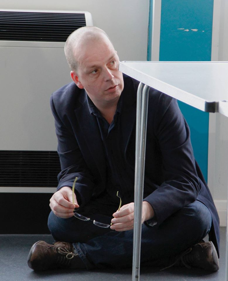 Picture of Spencer Hawken on the set of No Reasons